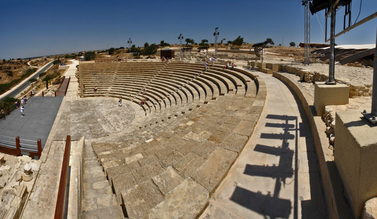 The amphitheatre in the antique town of Kourion (Curium), Cyprus